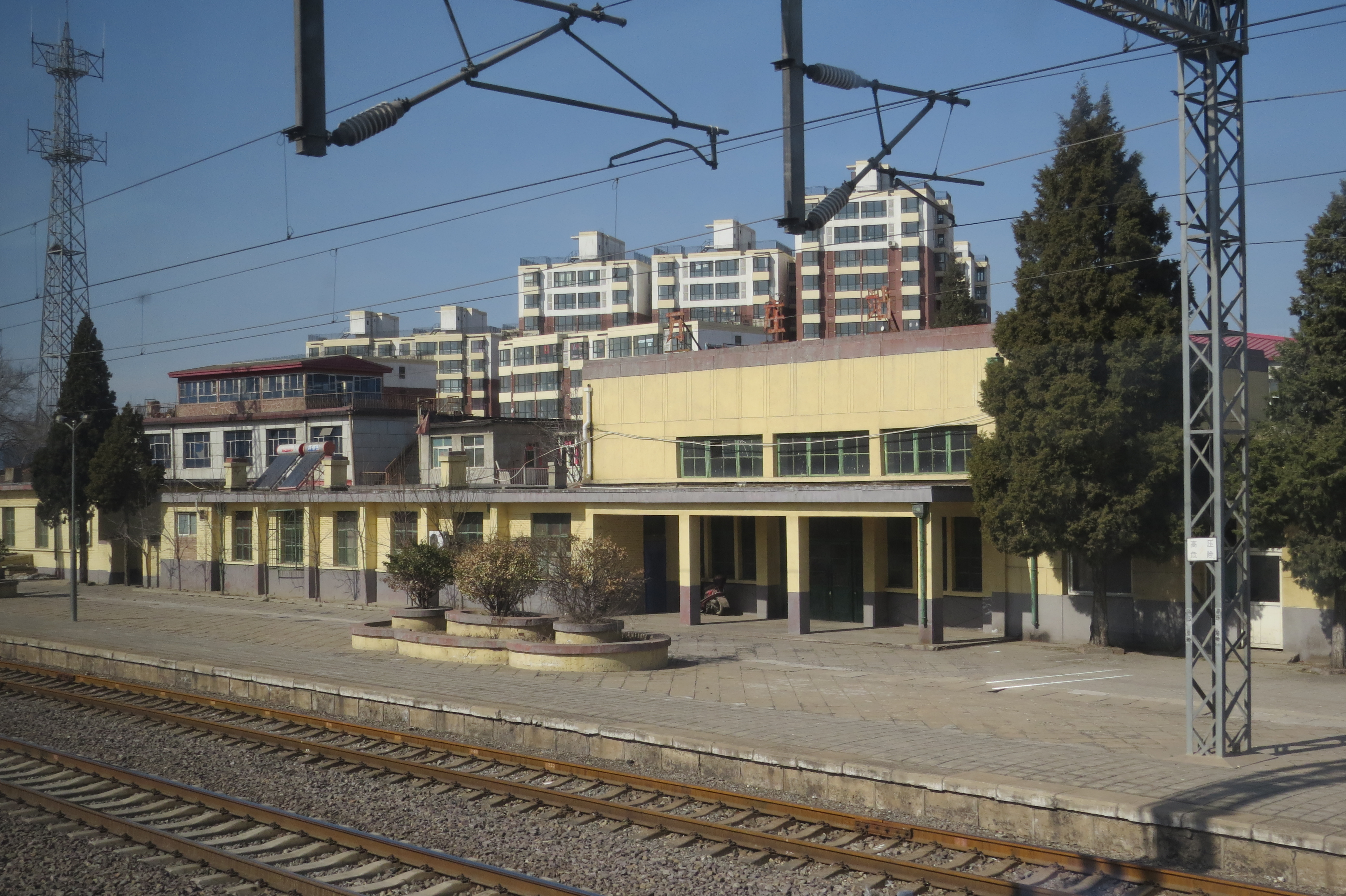 Taken from T58 as we were leaving Langfang.